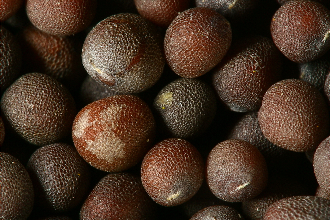 Extreme close-up picture of mustard seeds (presumably Brassica nigra)